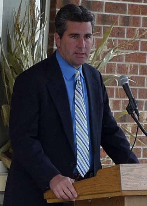 Wisconsin State Assemblyman Robb Kahl.